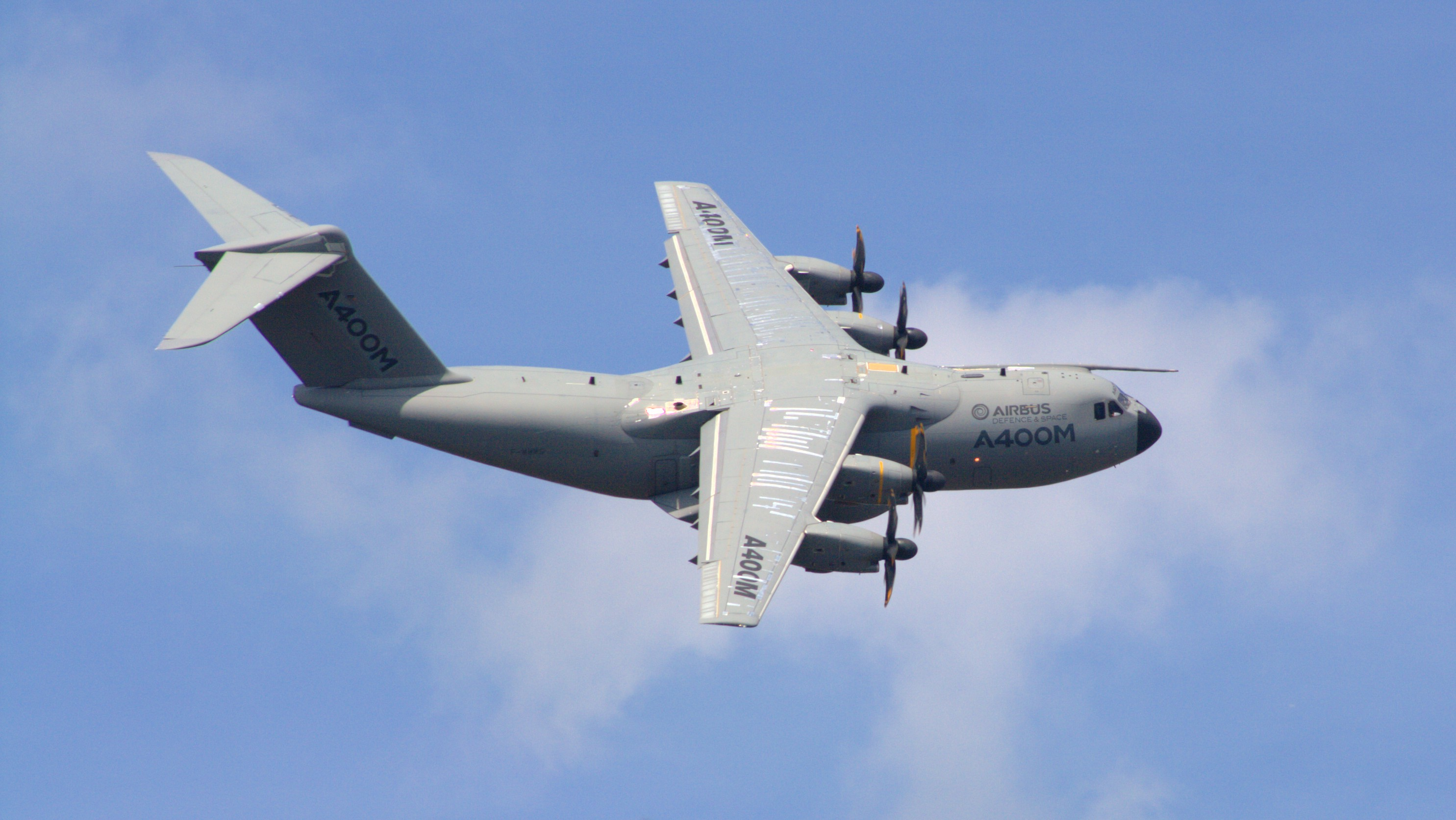 Farnborough International Airshow 2014